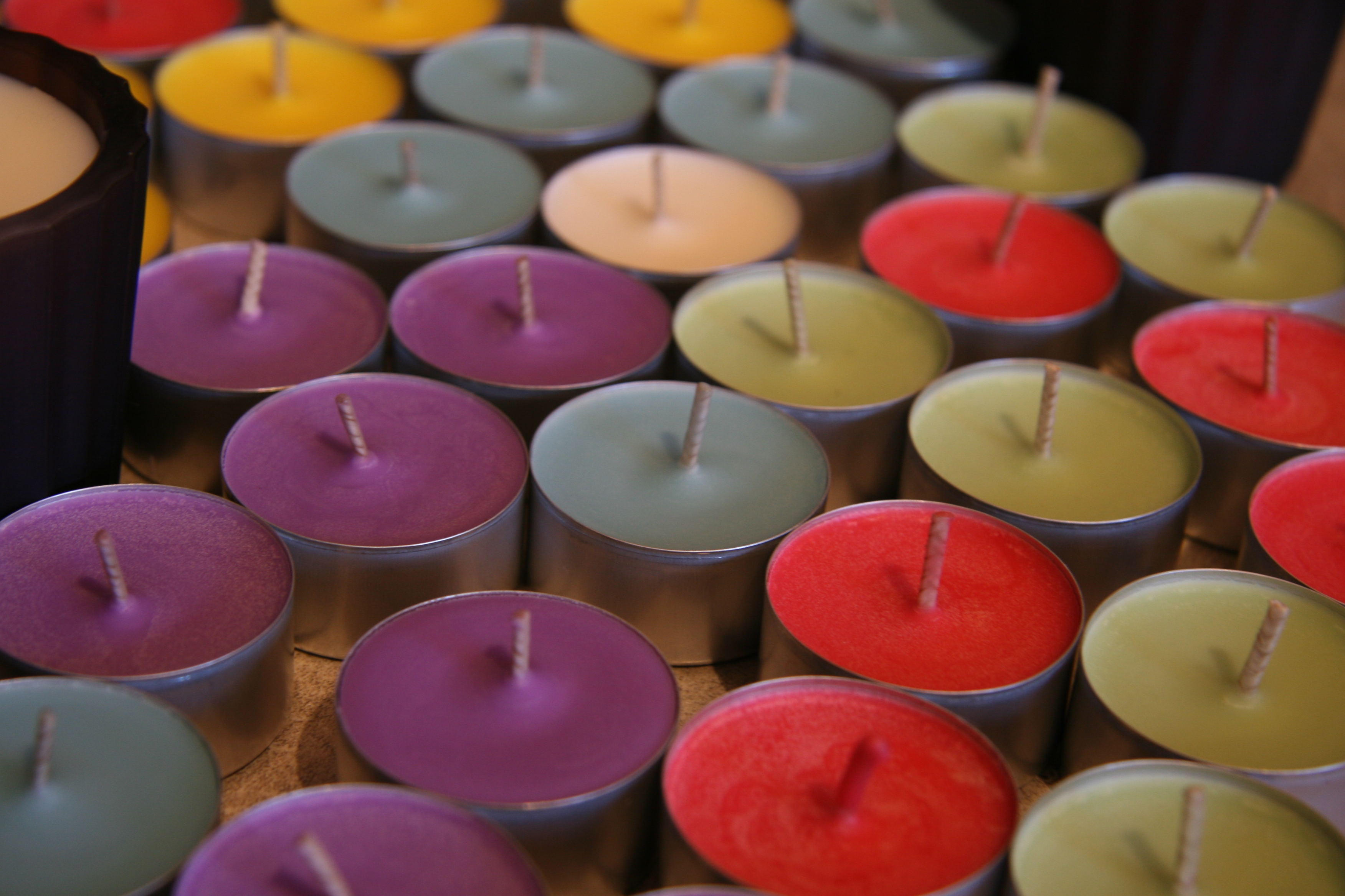 Handmade soy candles.